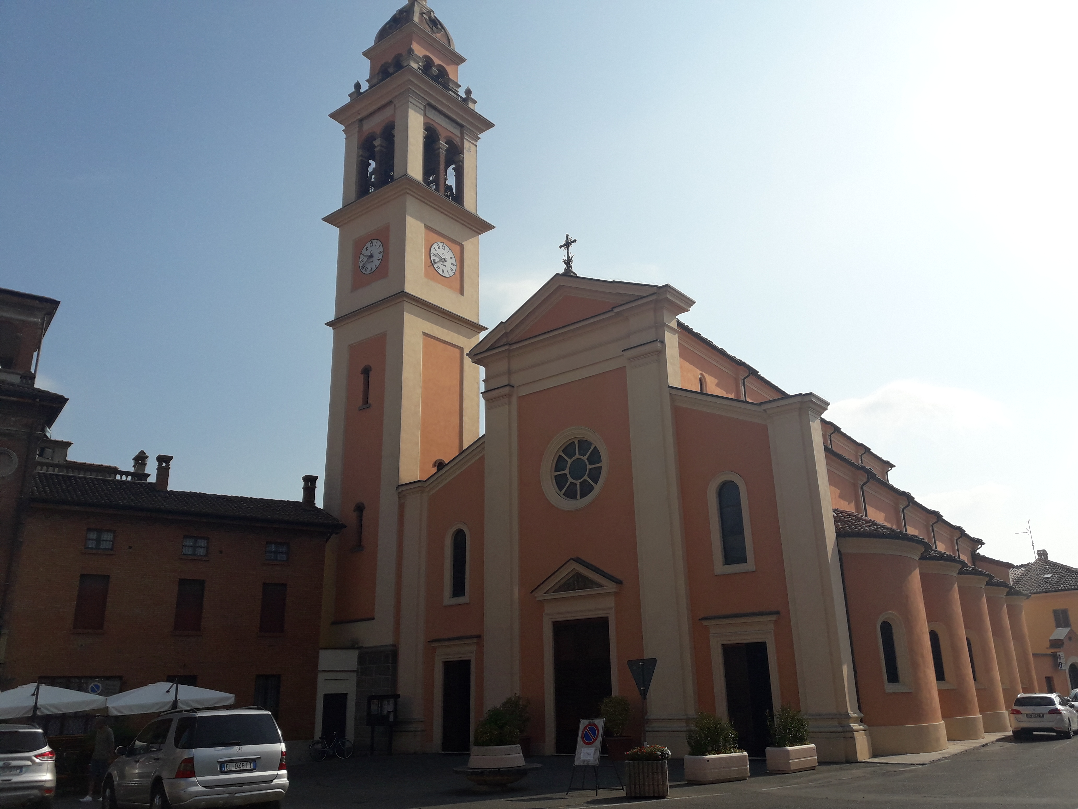 Church dedicated to Saints Firmus and Rusticus, located in Carpaneto Piacentino, Piacenza, Italy